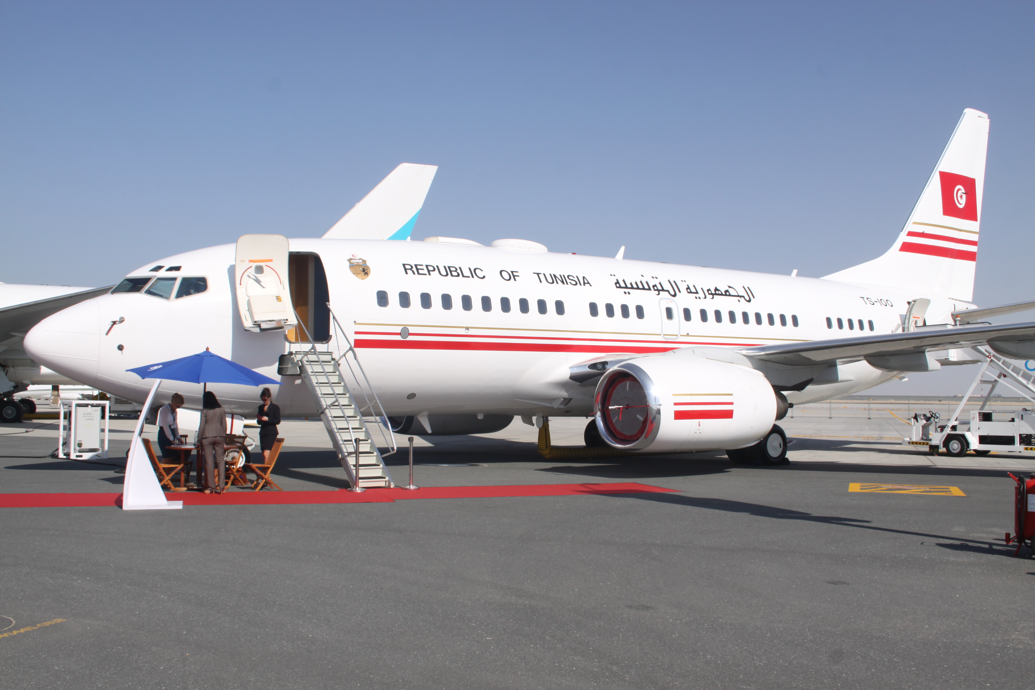 At Dubai Jebel Ali International ( DWC )